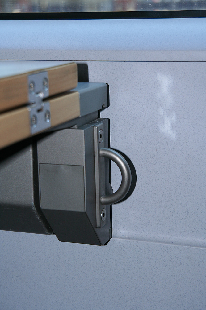 A loop that has been added to a compartment in car #26 of the ICE 3MF during their refitting for France. It enables police forces to chain passengers when necessary.